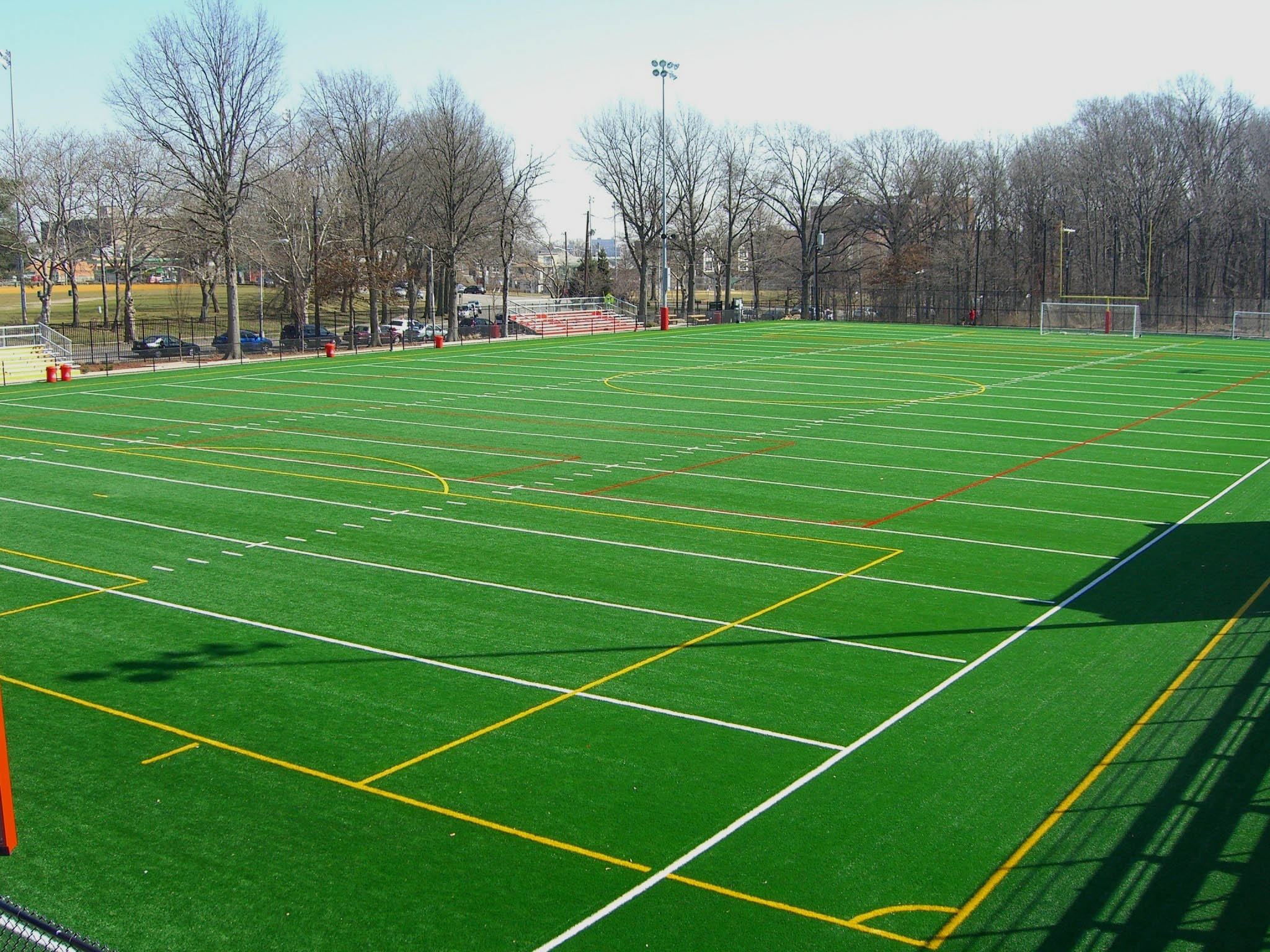 The soccer field at Bruins Stadium, located in James J. Braddock Park in North Bergen, New Jersey. The Stadium is home field of North Bergen High School. This photo was created by Luigi Novi. It is not in the public domain, and use of this file outside of the licensing terms is a copyright violation.